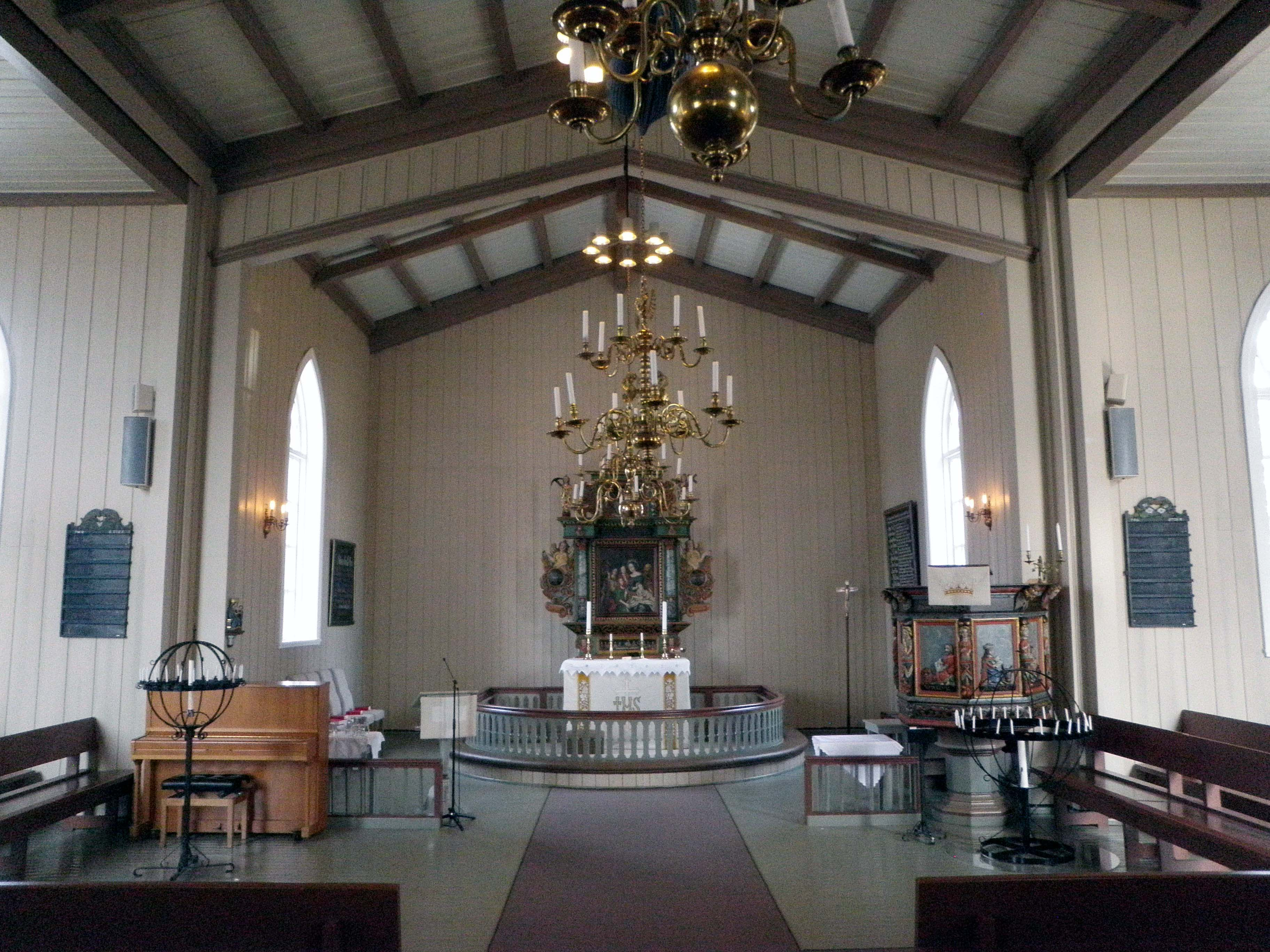 The interior of Elverhøy Church, in Tromsø, Troms, Norway. View facing the altar.